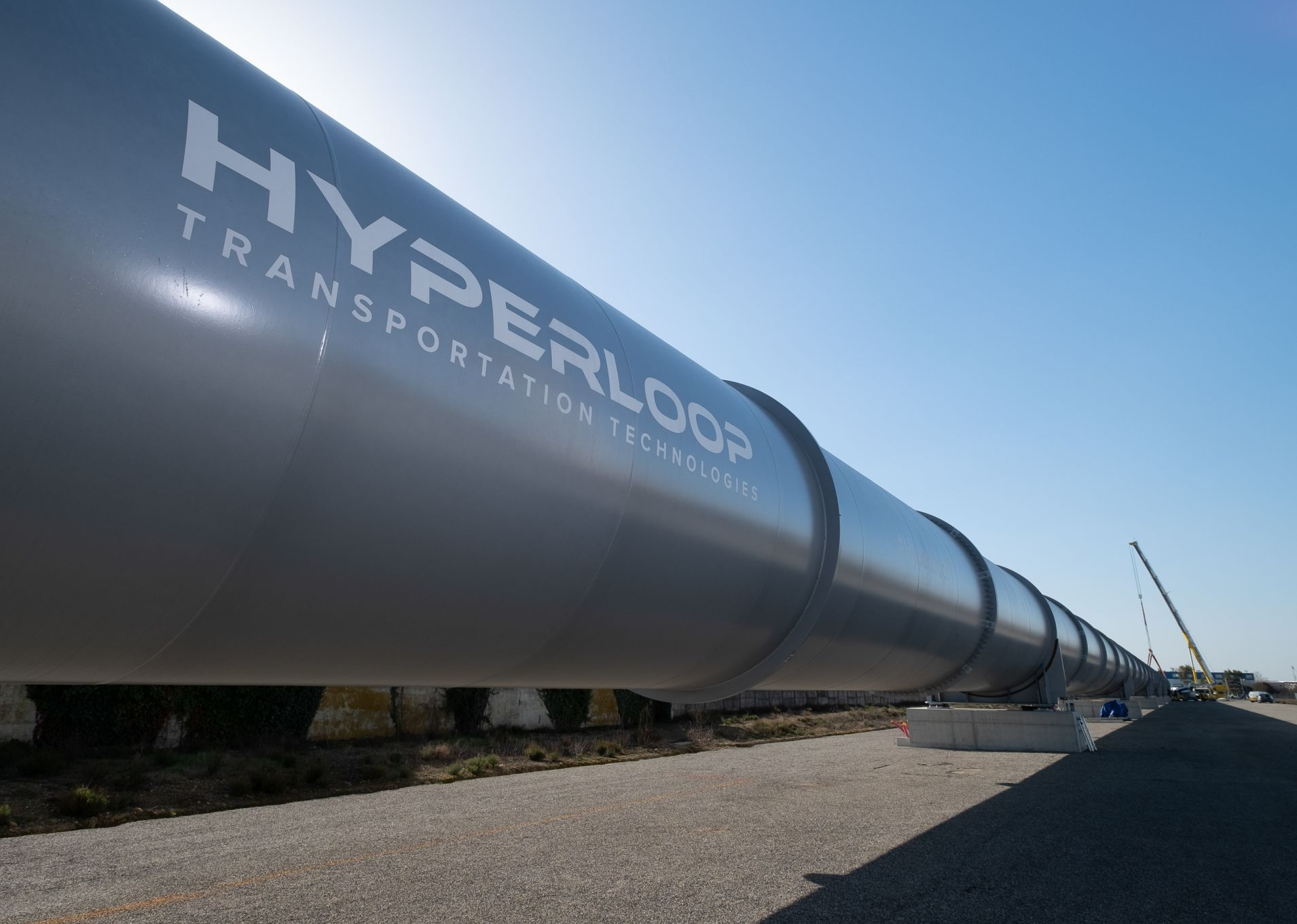 Hyperloop Transportation Technologies Test Facility